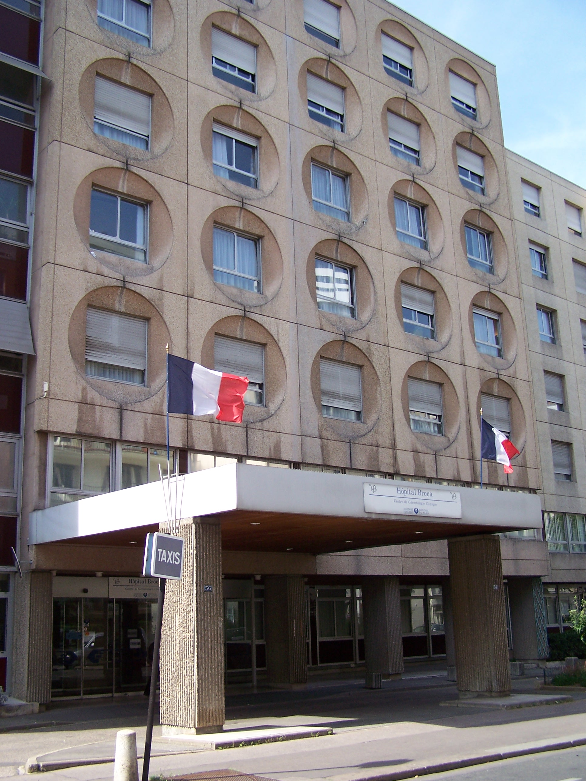 Entrance of the hospital Broca at rue Pascal in Paris